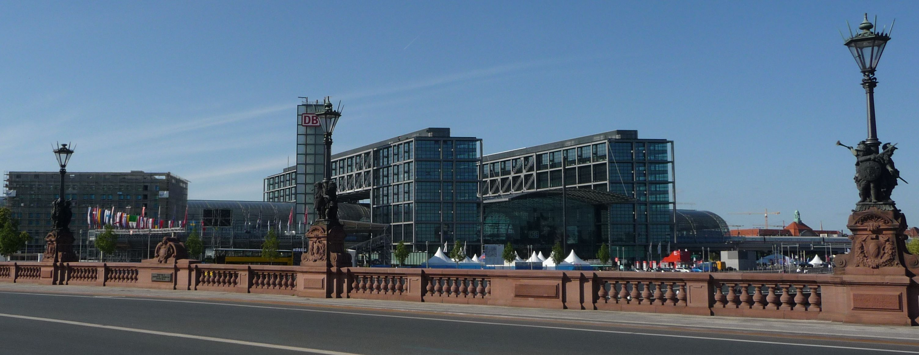 Berlin